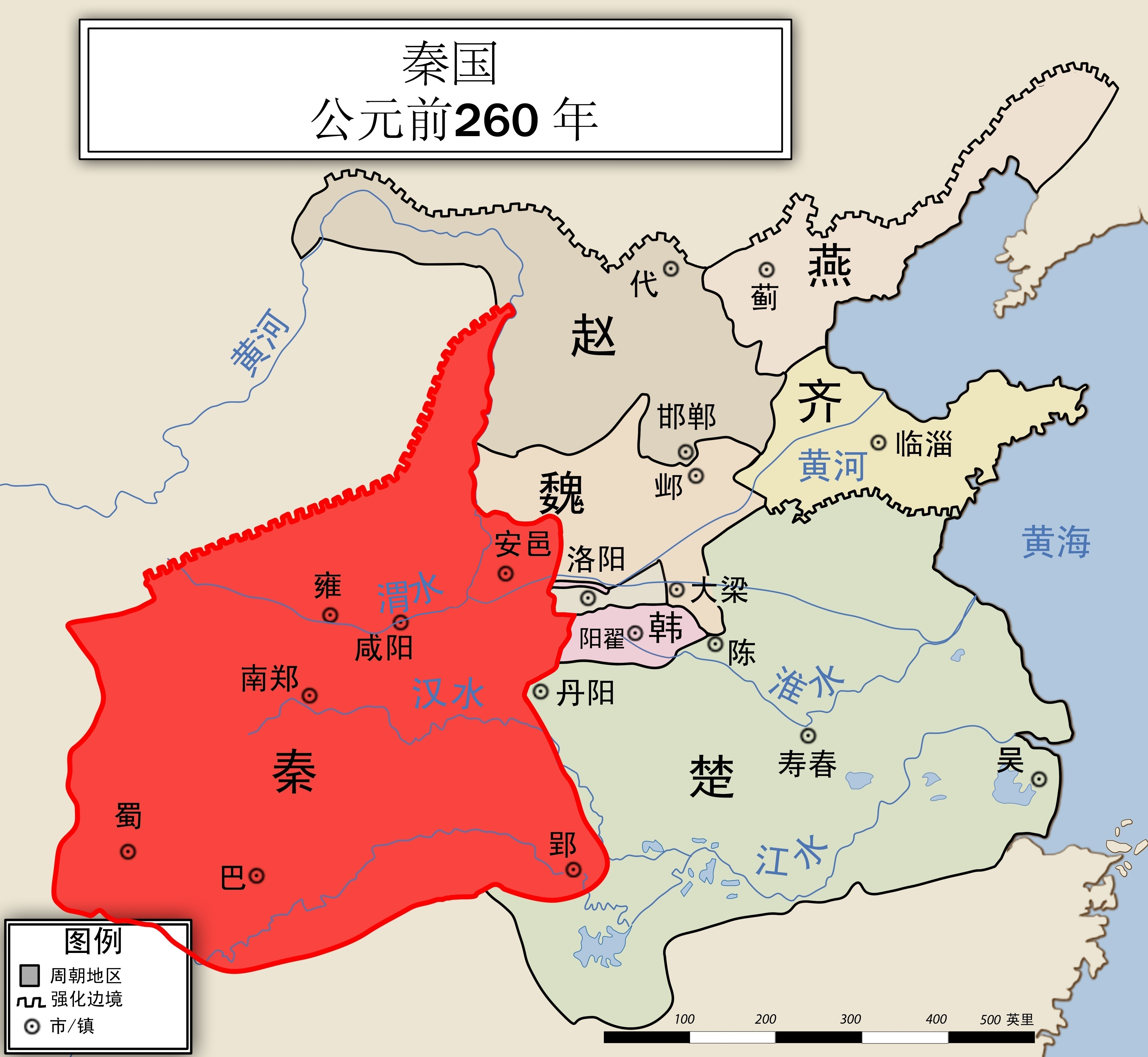 China Map, Qin State, 260BCE